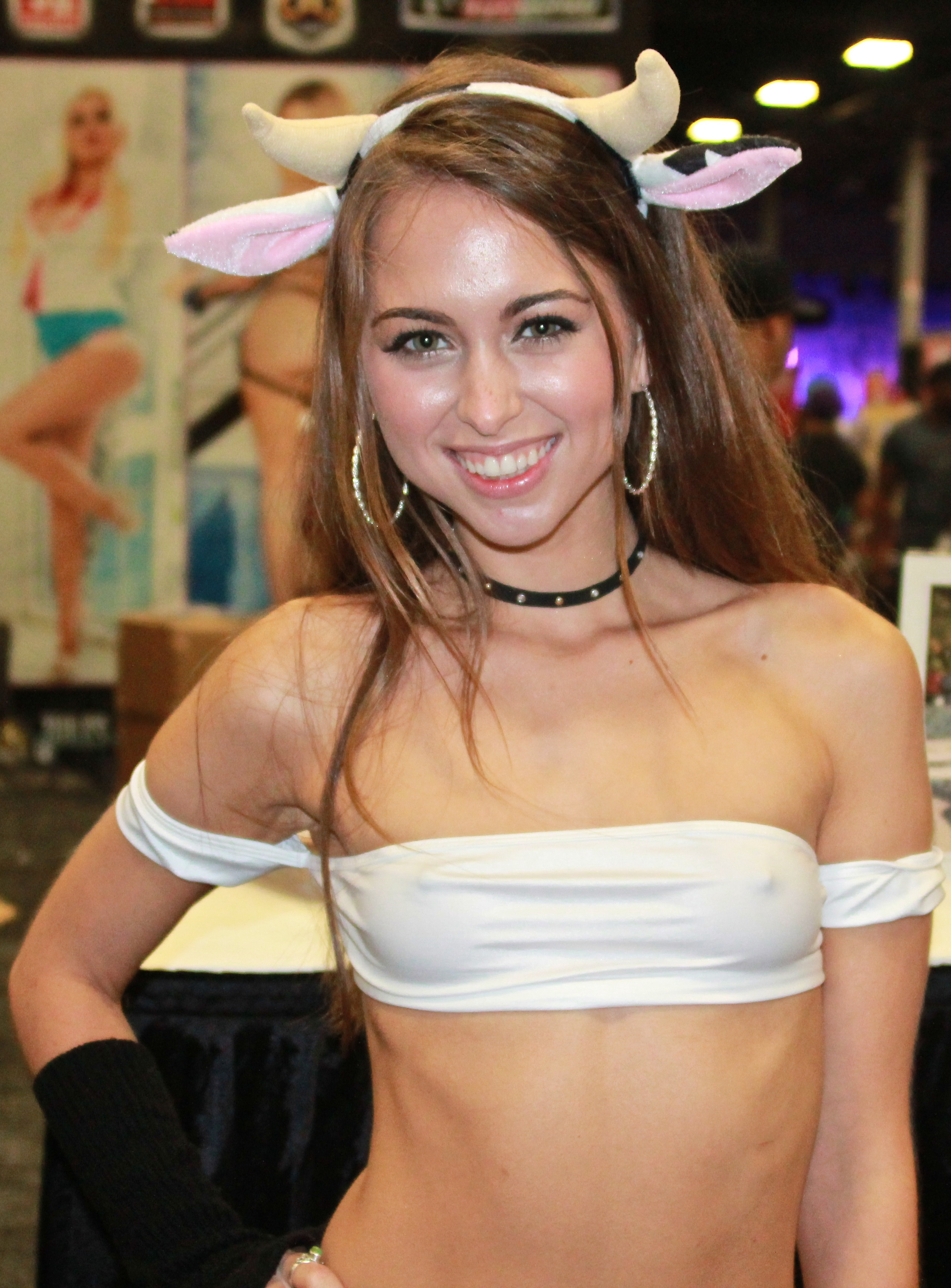 Riley Reid at Exxxotica New Jersey on October 6, 2013